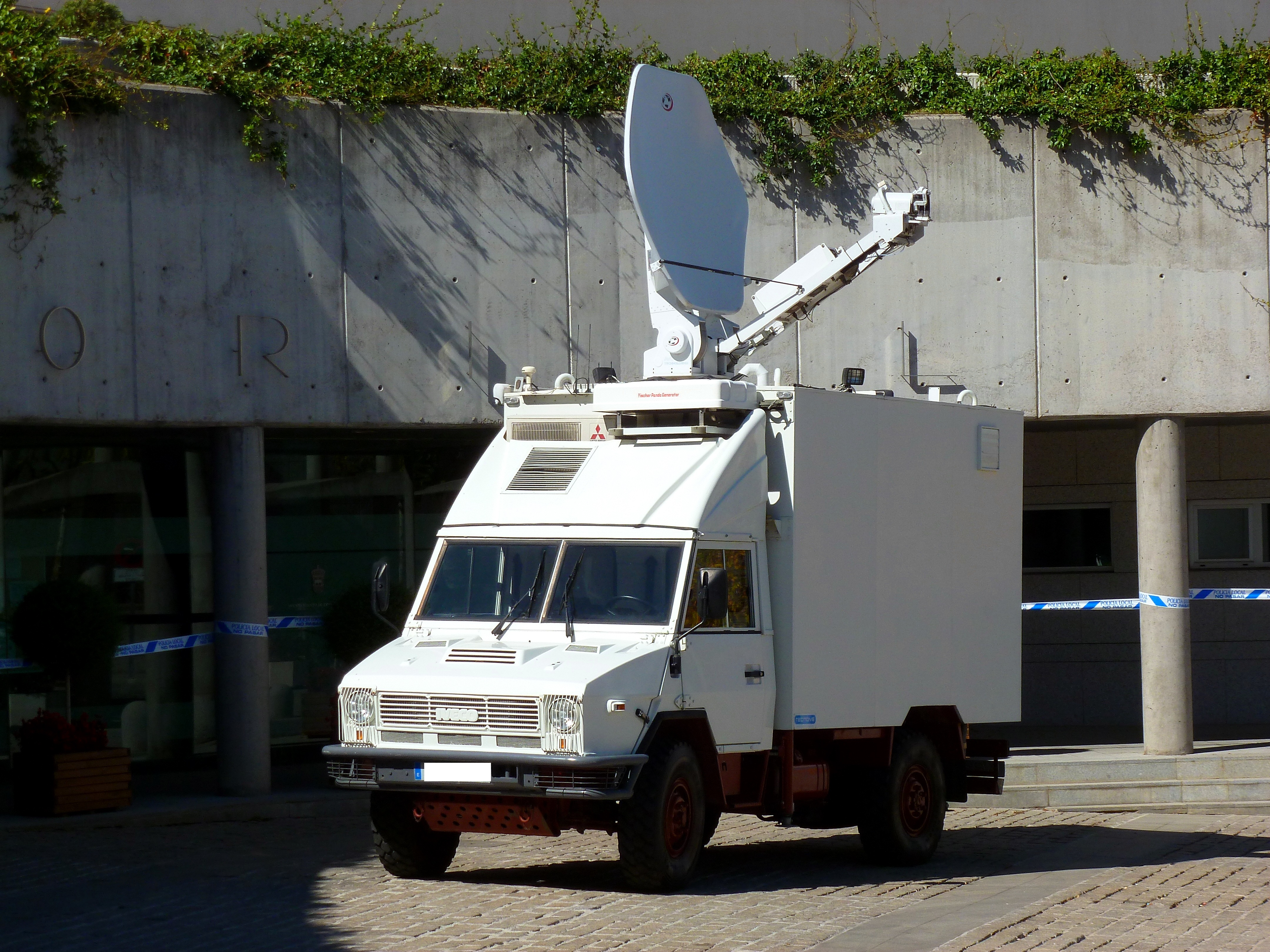 Iveco-Pegaso 40.10WM of the SIVE system of the Spanish Civil Guard.